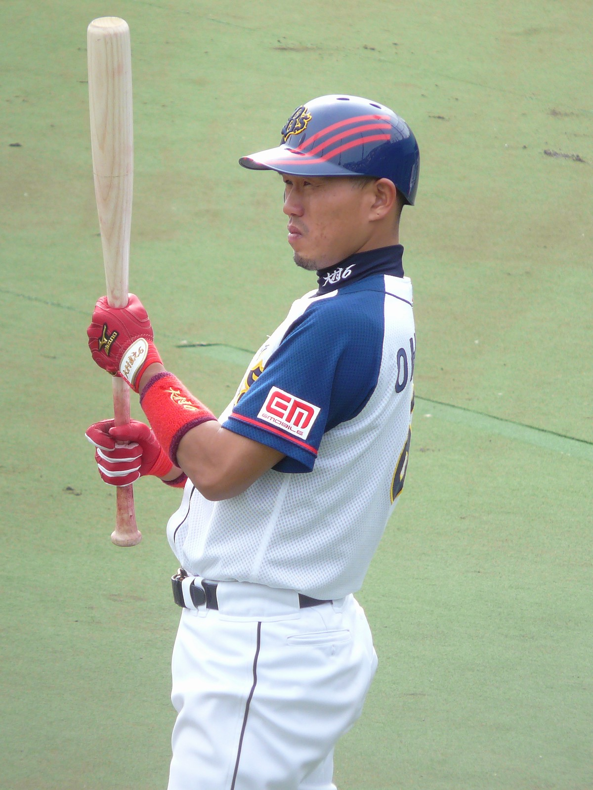 Naoyuki Ohmura, outfielder of the Orix Buffaloes, at Ajisai Stadium Kita-kobe.